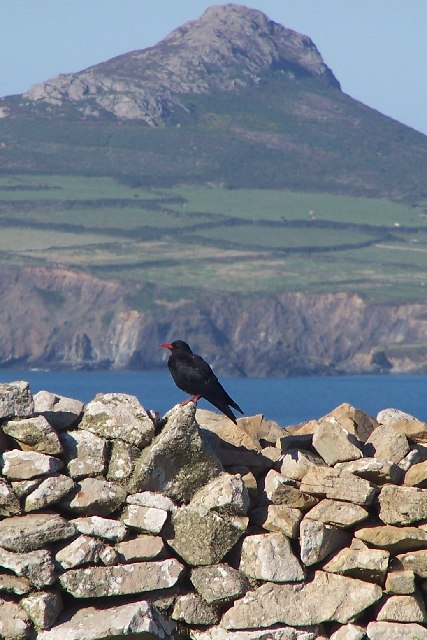 Carn Llidi taken from Ramsey island. Chough taken on Ramsey Island with Carn Llidi in the background